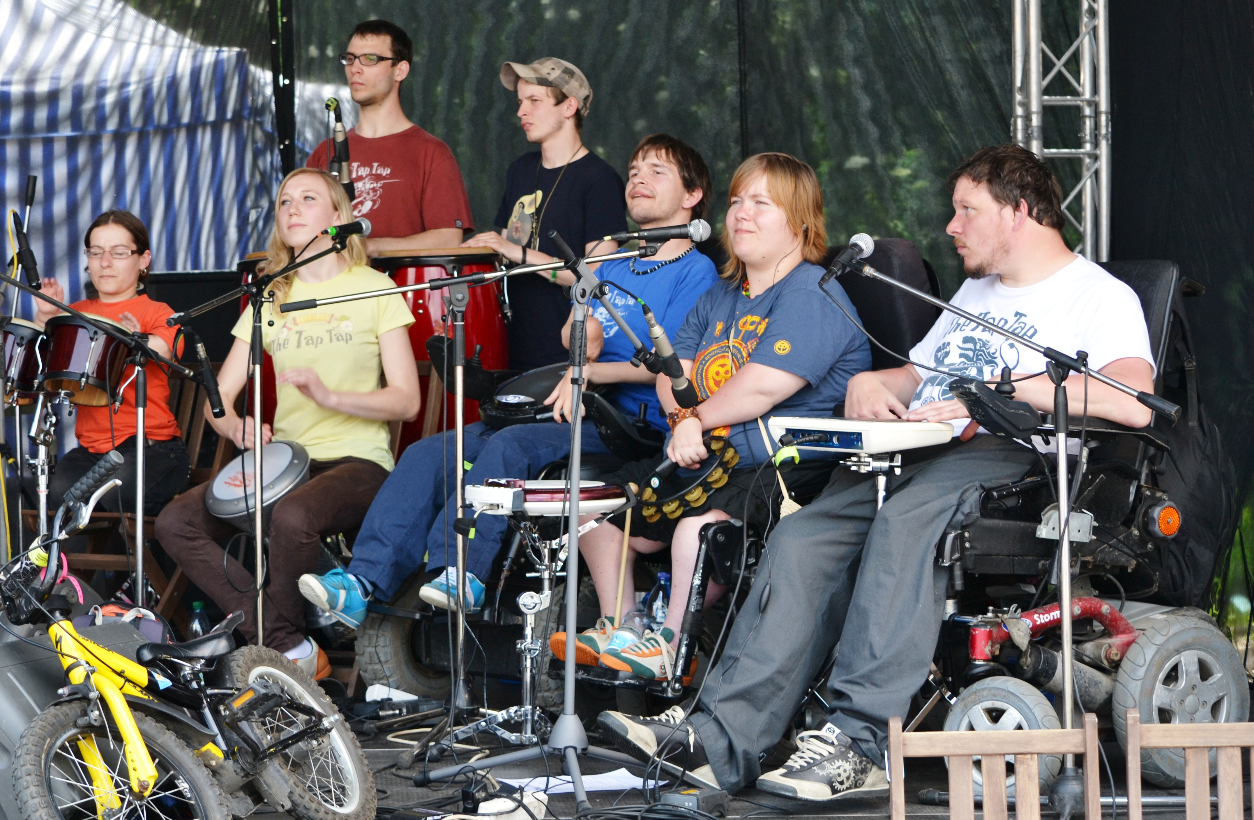 The Tap Tap Band, Czech Republic